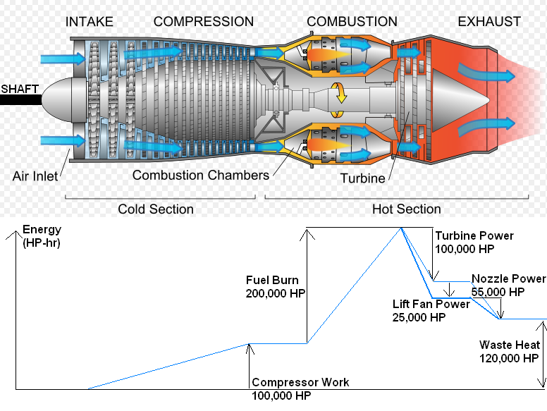 Diagram of a typical gas turbine jet engine (in English). Air is compressed by the fan blades as it enters the engine, and it is mixed and burned with fuel in the combustion section. The hot exhaust gases provide forward thrust and turn the turbines which drive the compressor fan blades.